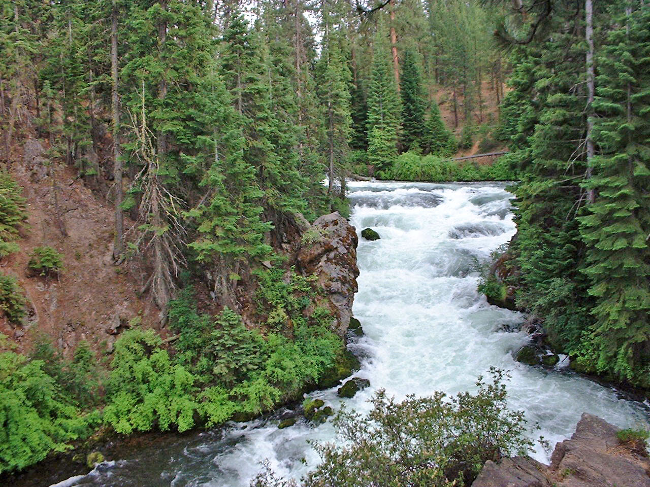 Cascading rapids along the Deschutes River near Bend, Oregon